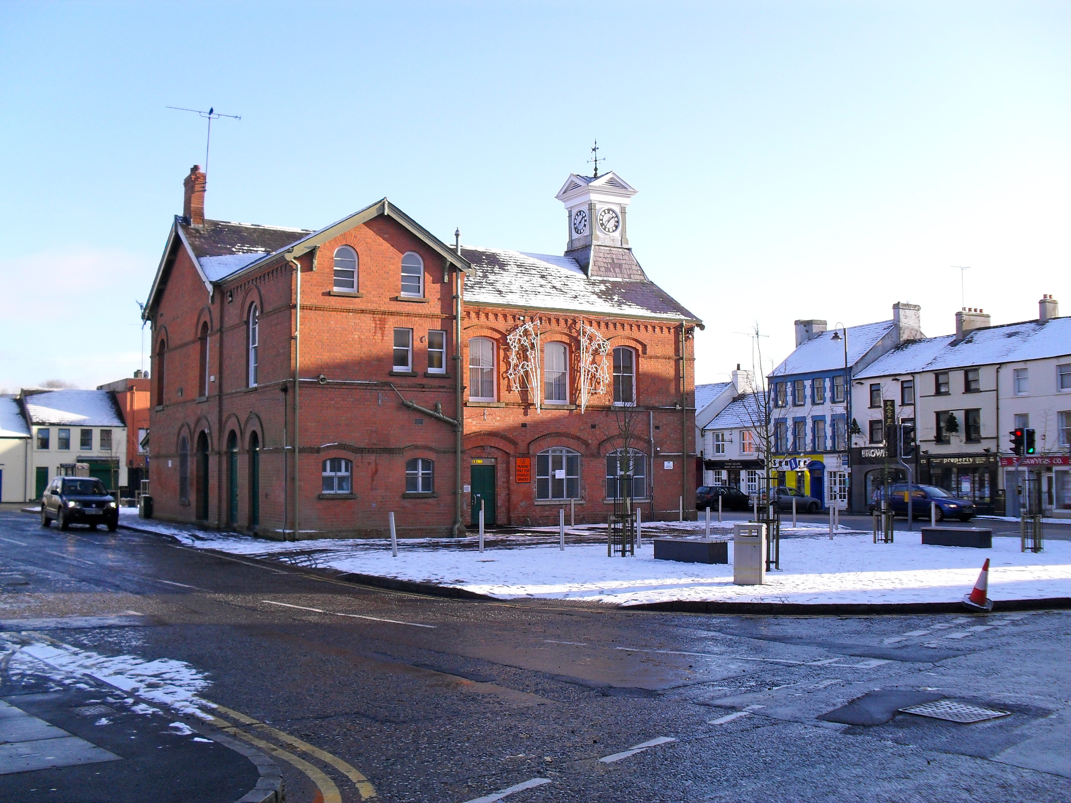 Market Square in the centre of Dromore, County Down (UK) after a light snowfall on 20th December 2009.